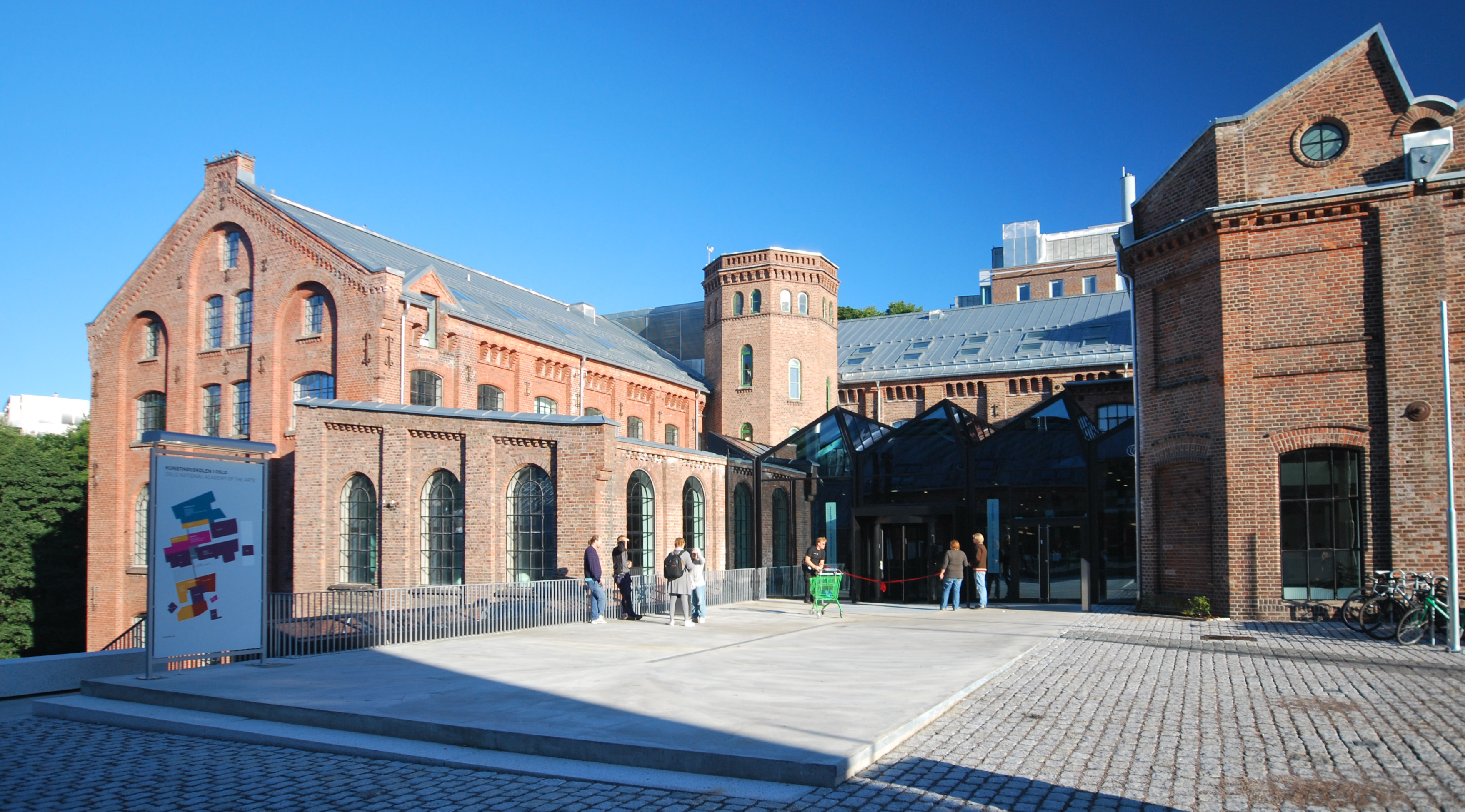 Kunsthøgskolen i Oslo (Oslo National Academy of the Arts) at Grünerløkka. Entrance to "Seilduken", opened 30 August 2010